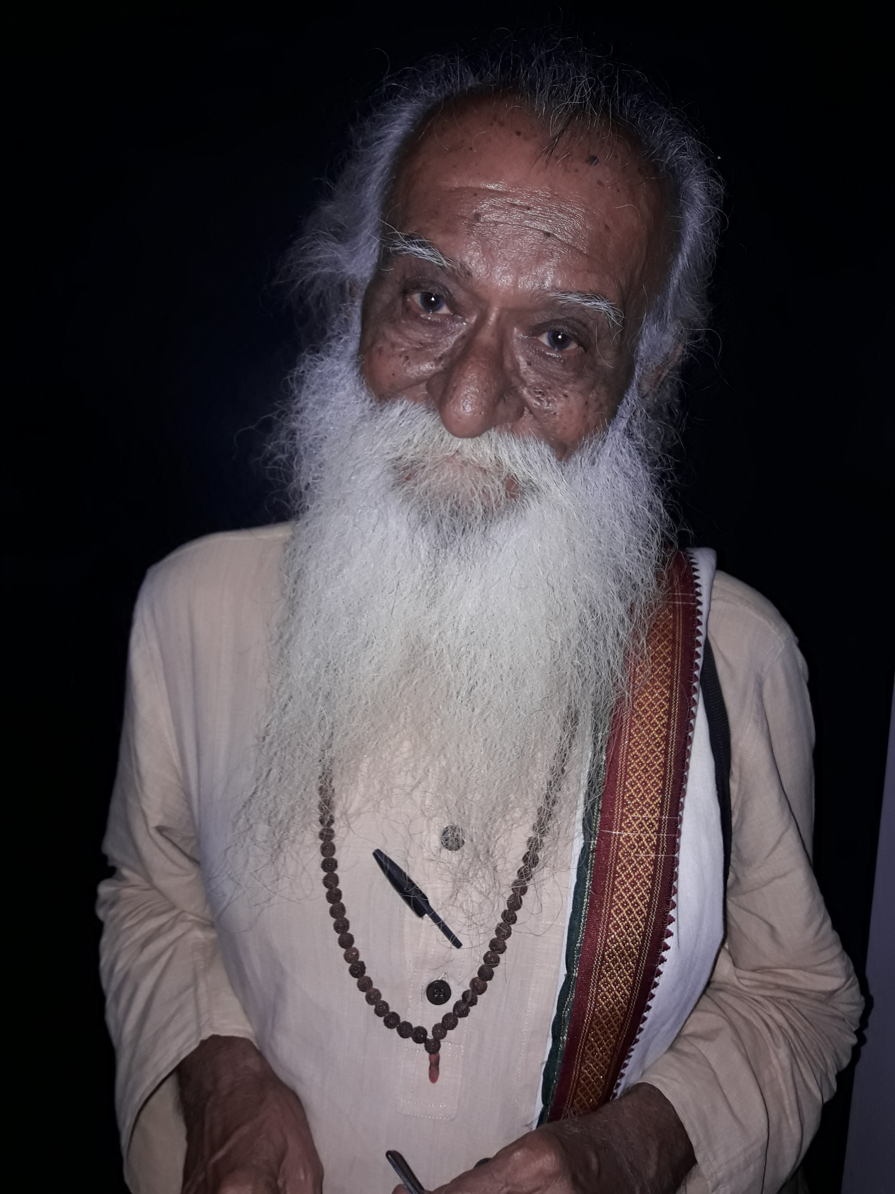 Gujarati poet Rajendra Shukla at ATMA auditorium, Ahmedabad, Gujarat, India on the event of Sada Sarvada Kavita on 14 May 2017